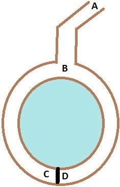 It`s uses for describing Zero-knowledge proof, at least in russian wiki.